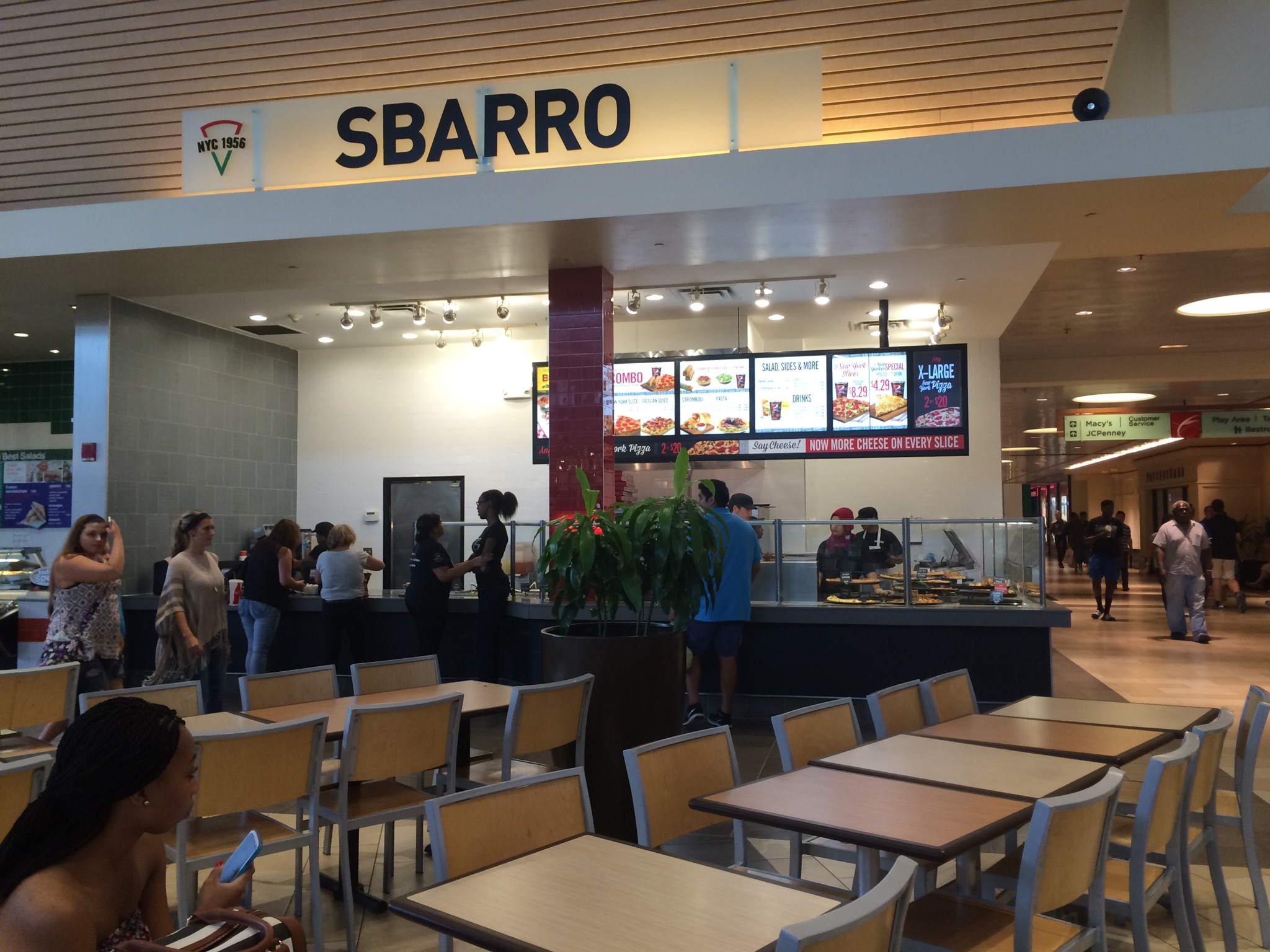 Delaware Sbarro restaurant